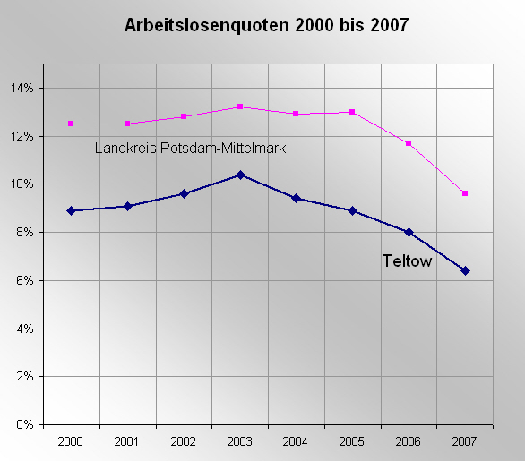 Teltow trend of unemployement rate 2000-2007